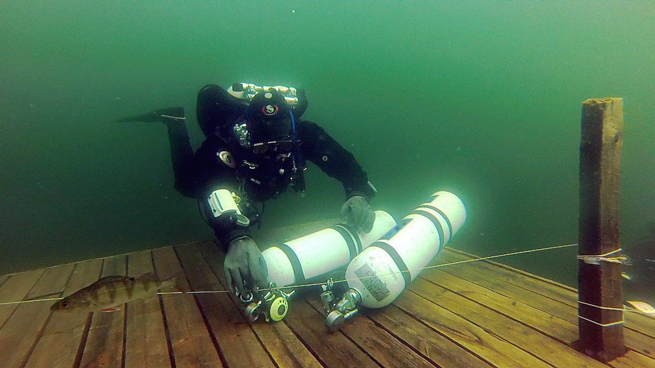 Technical diver practices handling of decompression mix stage bottles at Lake Iso-Melkutin in Loppi, Finland.